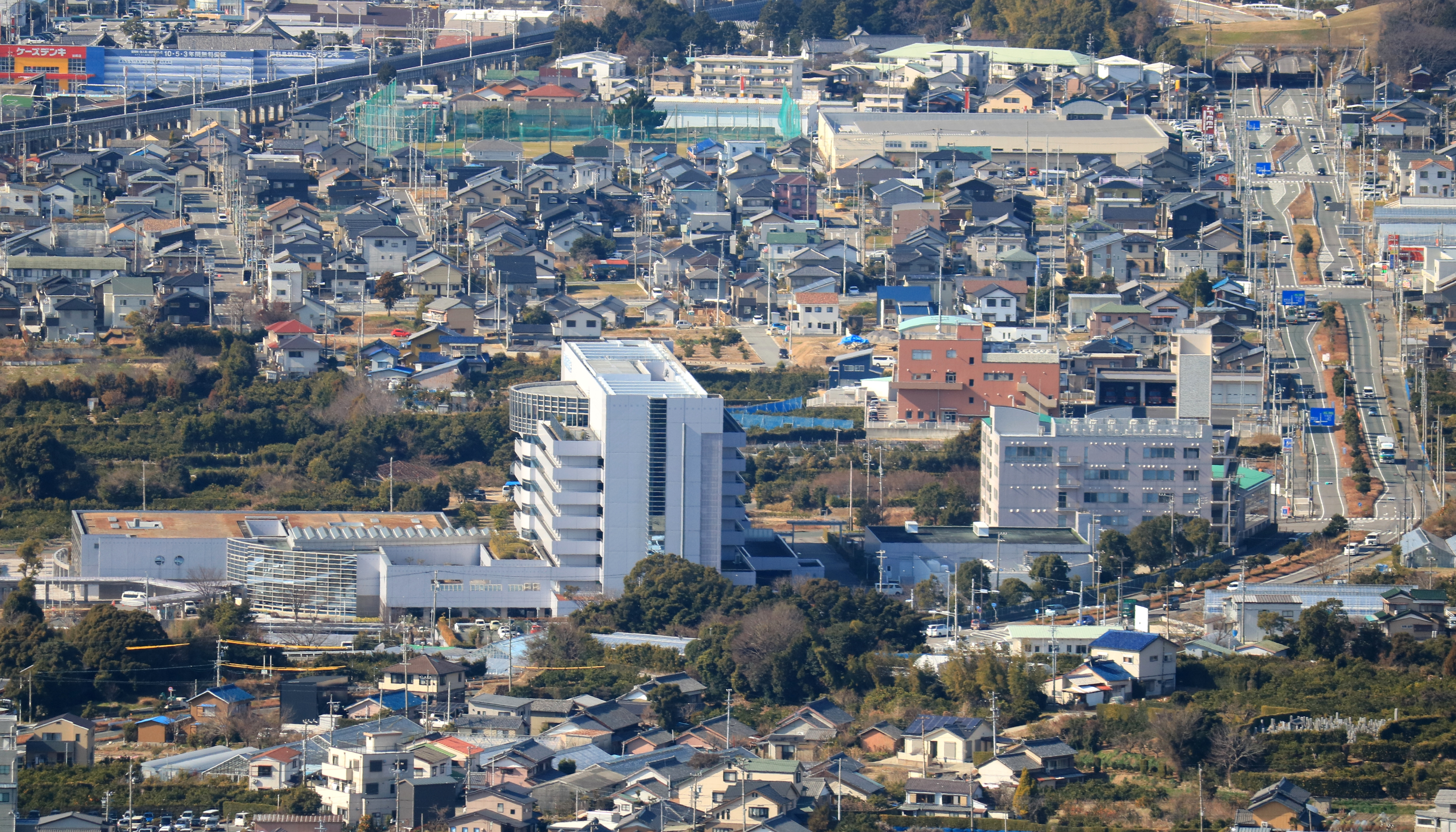 Gamagori City Hospital and Gamagori Sophia School of Nursin seen from Mount Togami in Gamagori, Aichi prefecture, Japan.